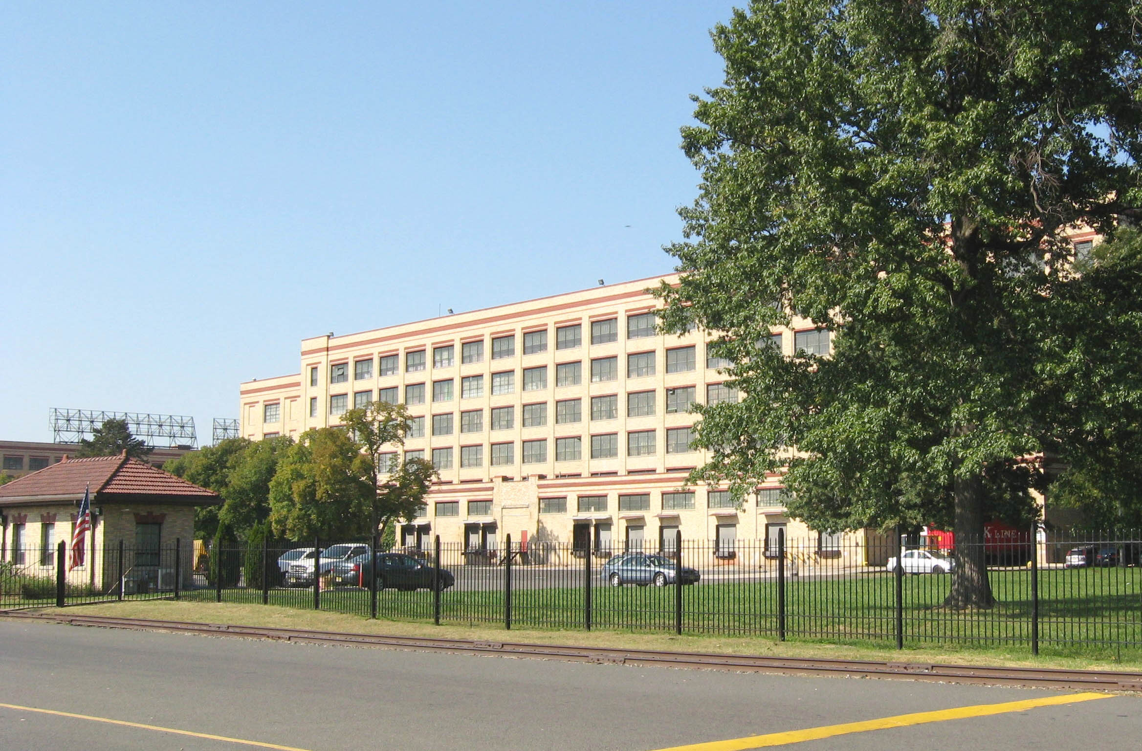 Looking northwest at former Kearny Works of Western Electric in Kearny, New Jersey on a sunny midday